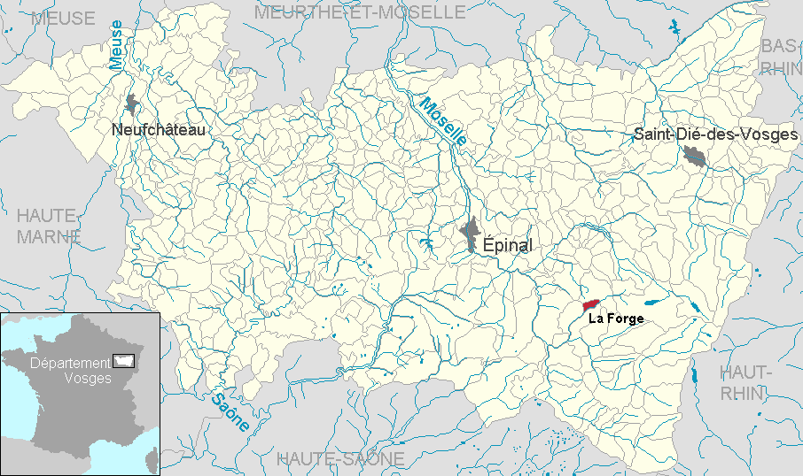 La Forge in the department of Vosges, Lorraine, France